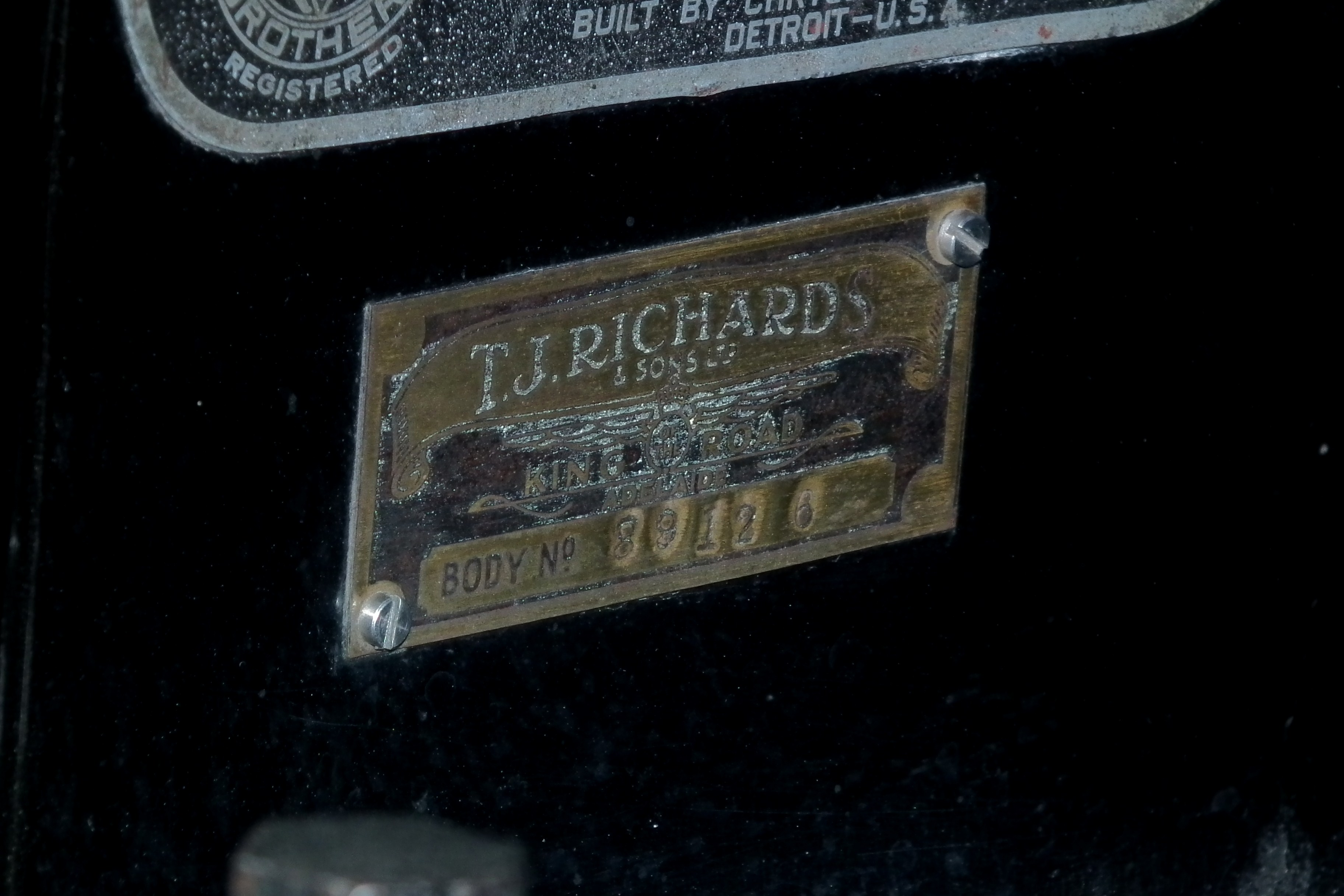 1939 Dodge TE32 table top body builder's plate. Bodywork by T J Richards. Taken at the 2011 New South Wales All Chrysler Day, held at Fairfield Showground, Prairiewood, Sydney.